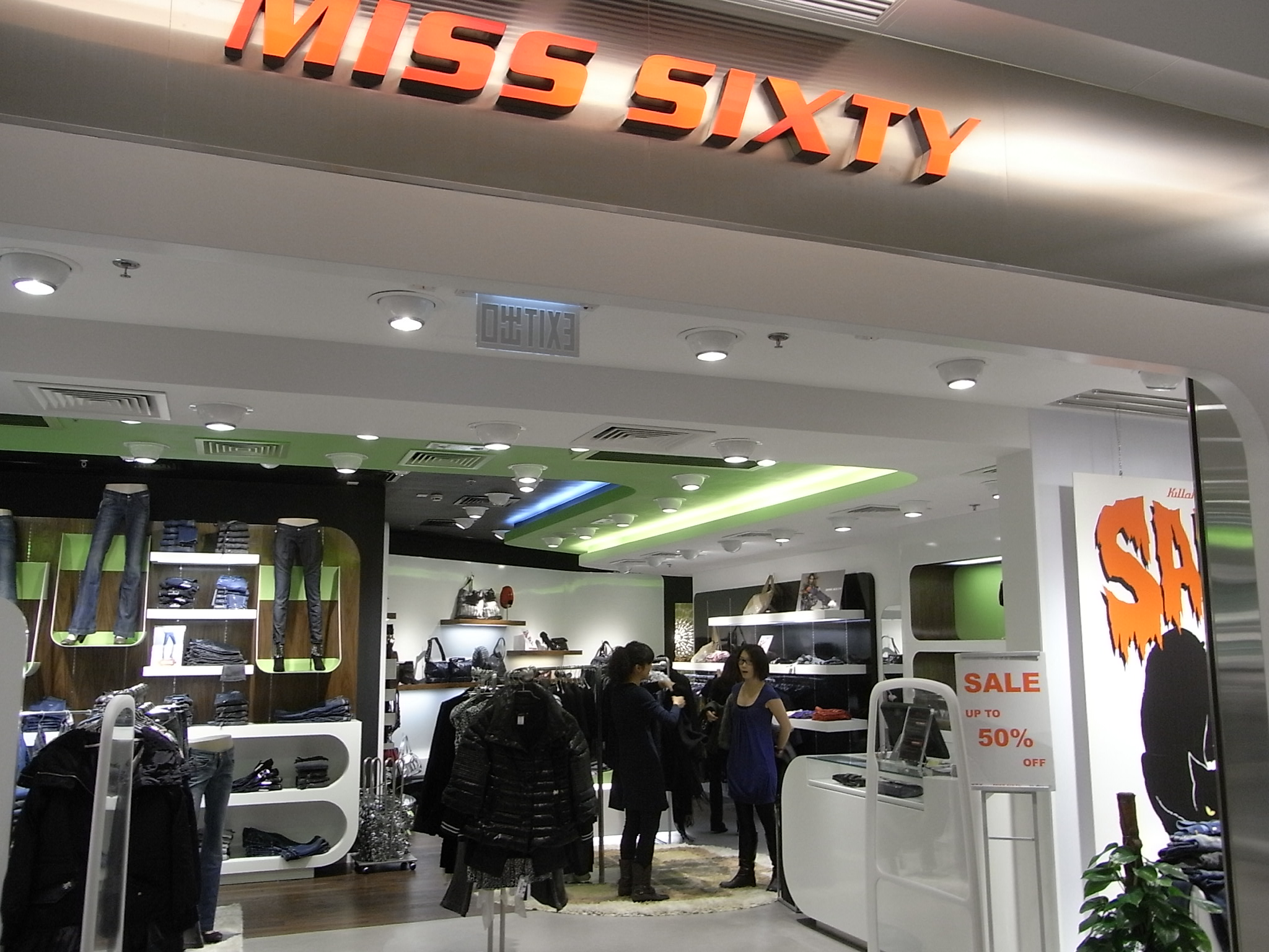 尖沙咀K11購物藝術館商場